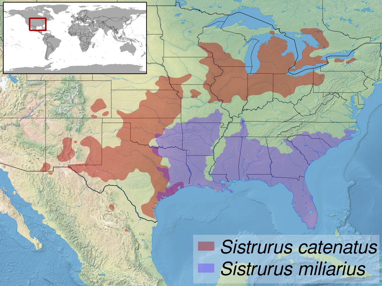 geographic distribution of Sistrurus. Included species: Sistrurus catenatus (Native: Canada; Mexico; United States), Sistrurus miliarius (Native: United States)